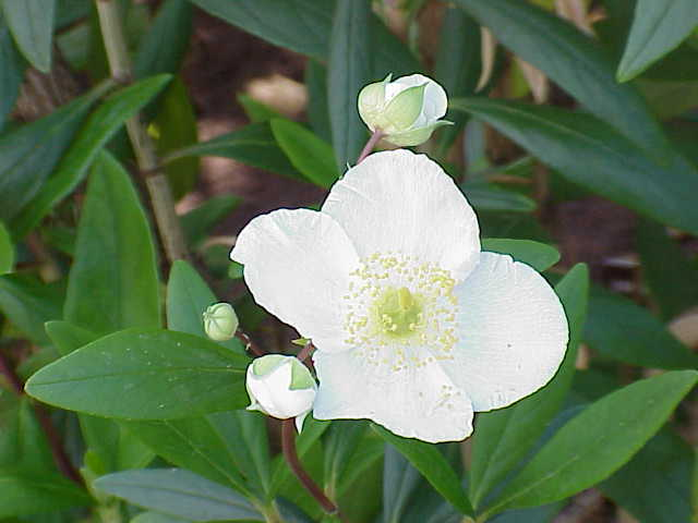 Species: Carpenteria californica Family: Hydrangeaceae Image No. 2